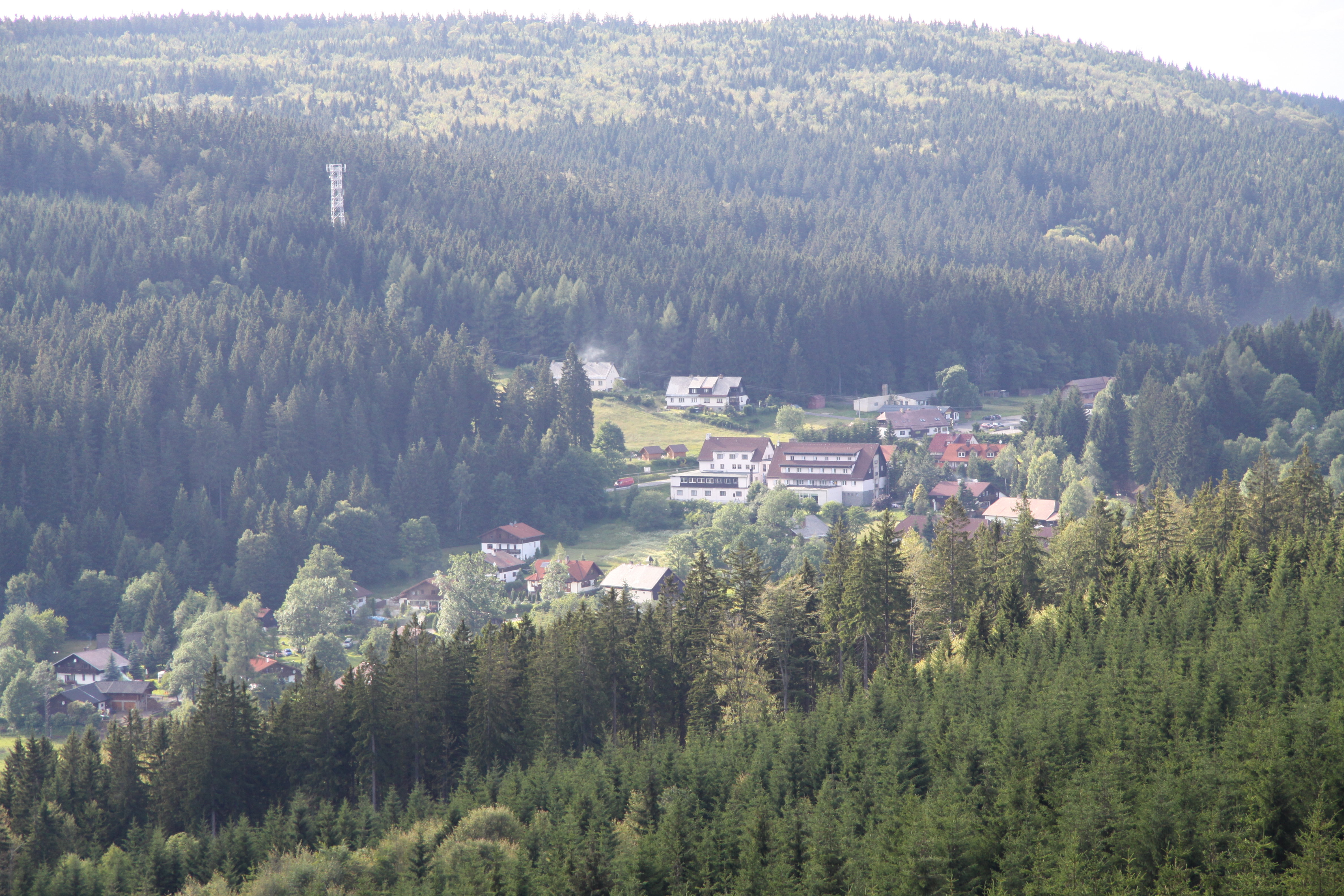 Kubova Huť village in Prachatice District, Czech Republic - Google Maps - Google Earth